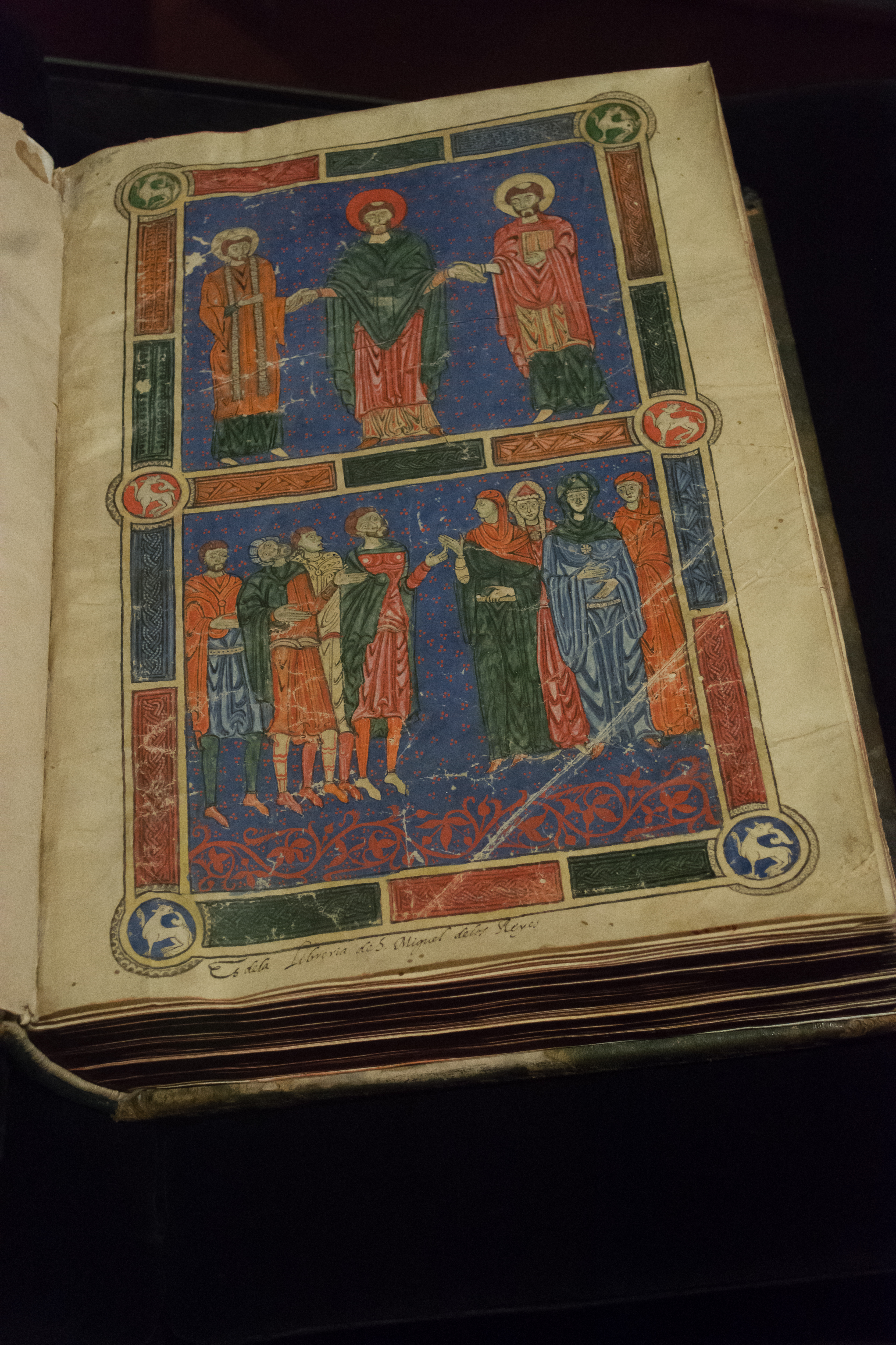 Enarrationes in Psalmos [1-83] of Augustine of Hippo. Provenance: Italy (1150-1175). Parchment, 290 pages, illustrated; 415 x 293 mm, bookbinding 430 x 310 mm. Language: Latin: Collection Duke of Calabria. University of Valencia. Historical Library BH Ms. 895.